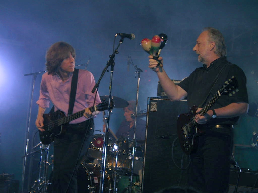 The Yardbirds, at Langueux (France). From left to right : John Idan, Jim McCarty, Chris Dreja.